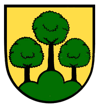 Coat of arms of Raitenbuch in Lenzkirch